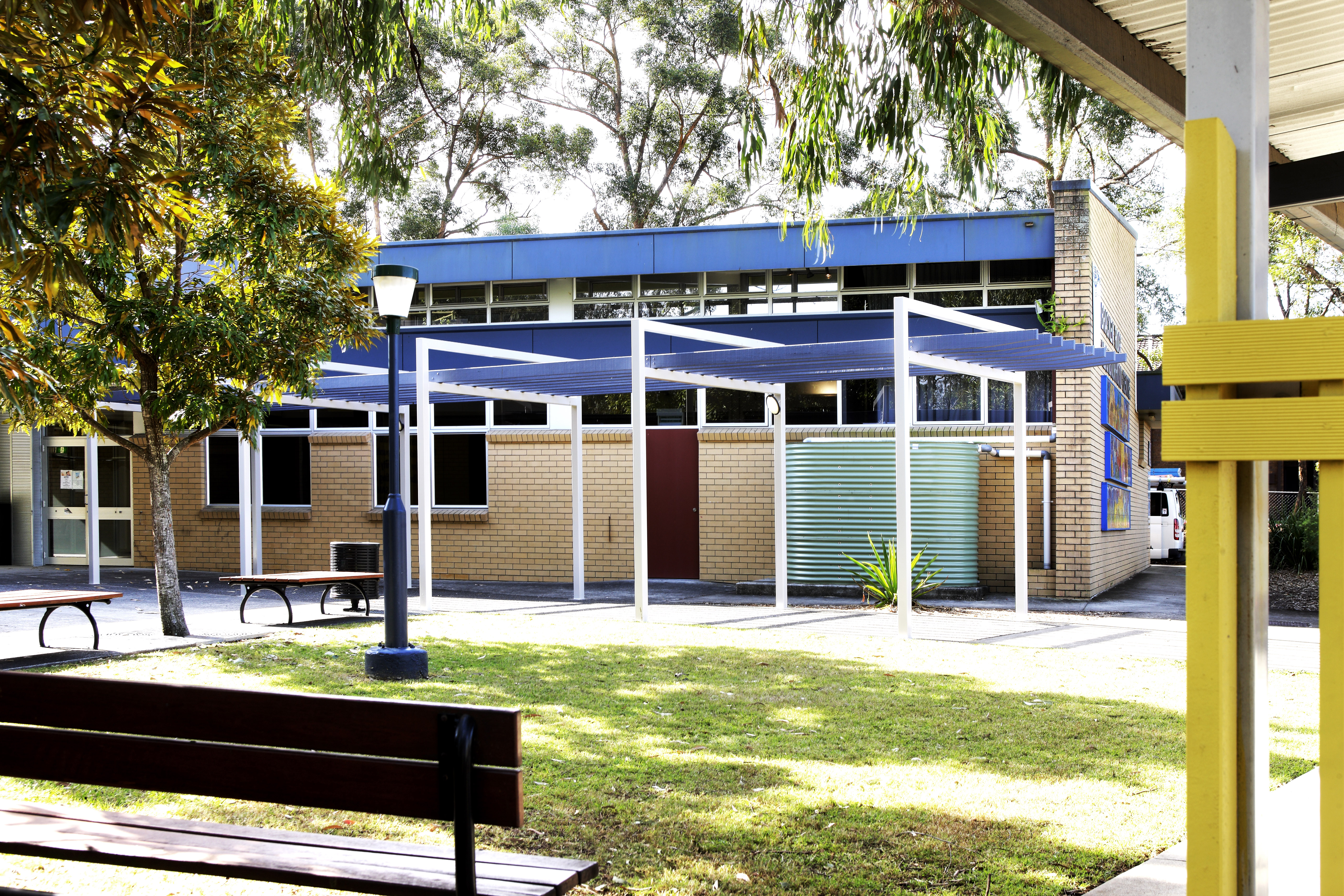 The hall is located next to Bracken Ridge Ward Office and Bracken Ridge Library.